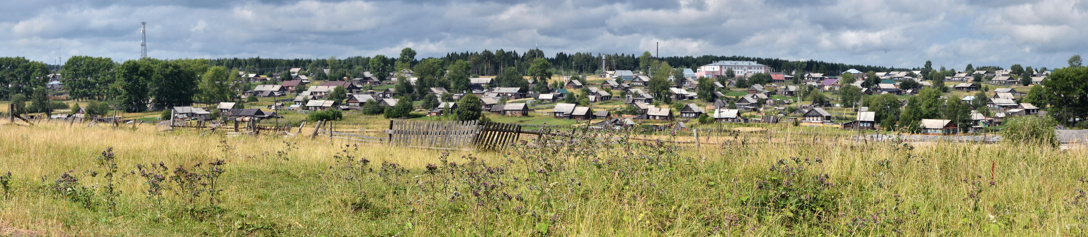 Лойно